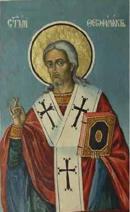 Archangels Chapel in Rila Monastery Saint_Theophilactus_Fresco_in_the_altar - 1835